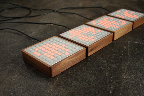 four Monome sixtyfour devices.